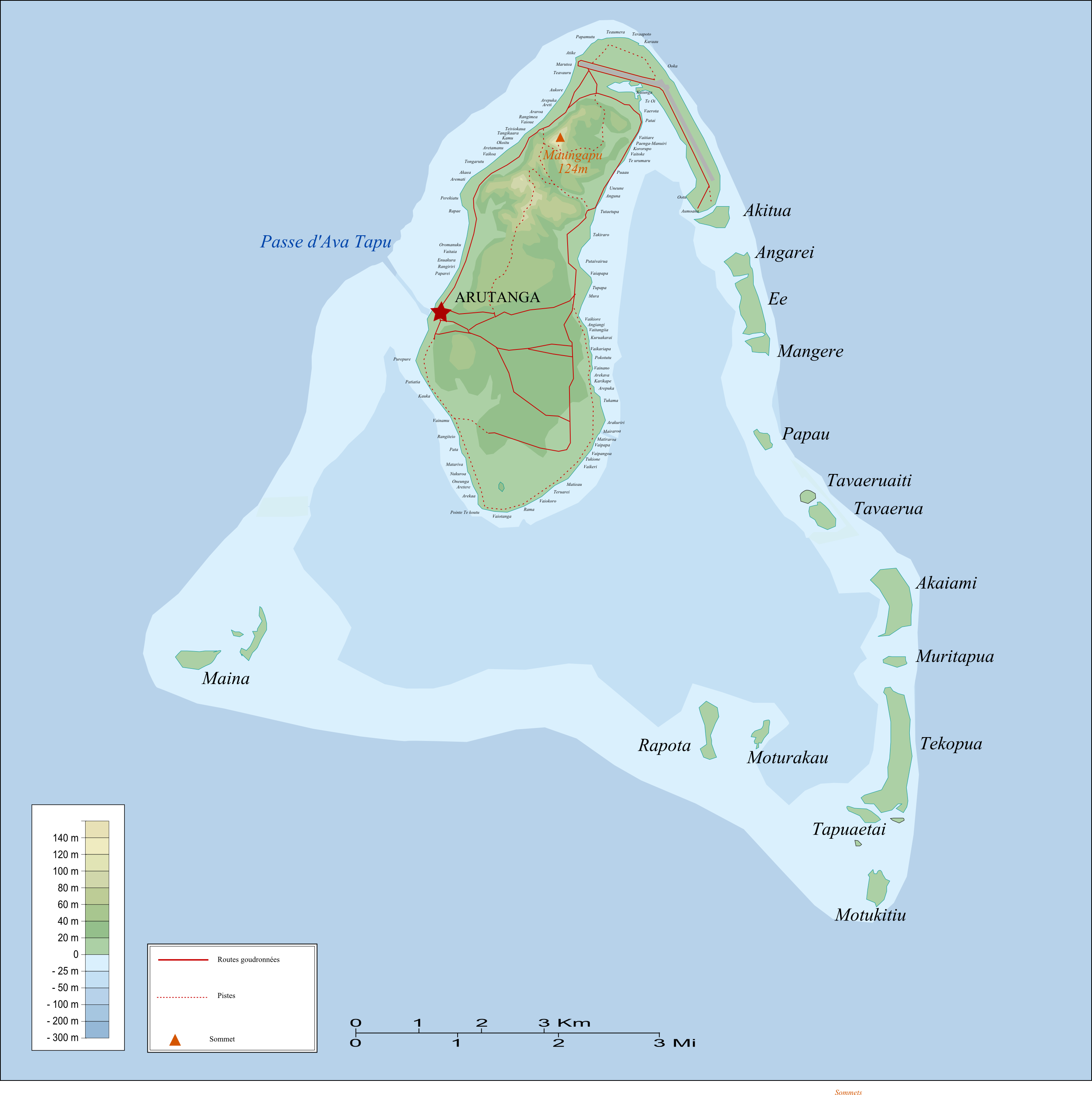 Carte topographique d'Aitutaki/Topographic map of Aitutaki